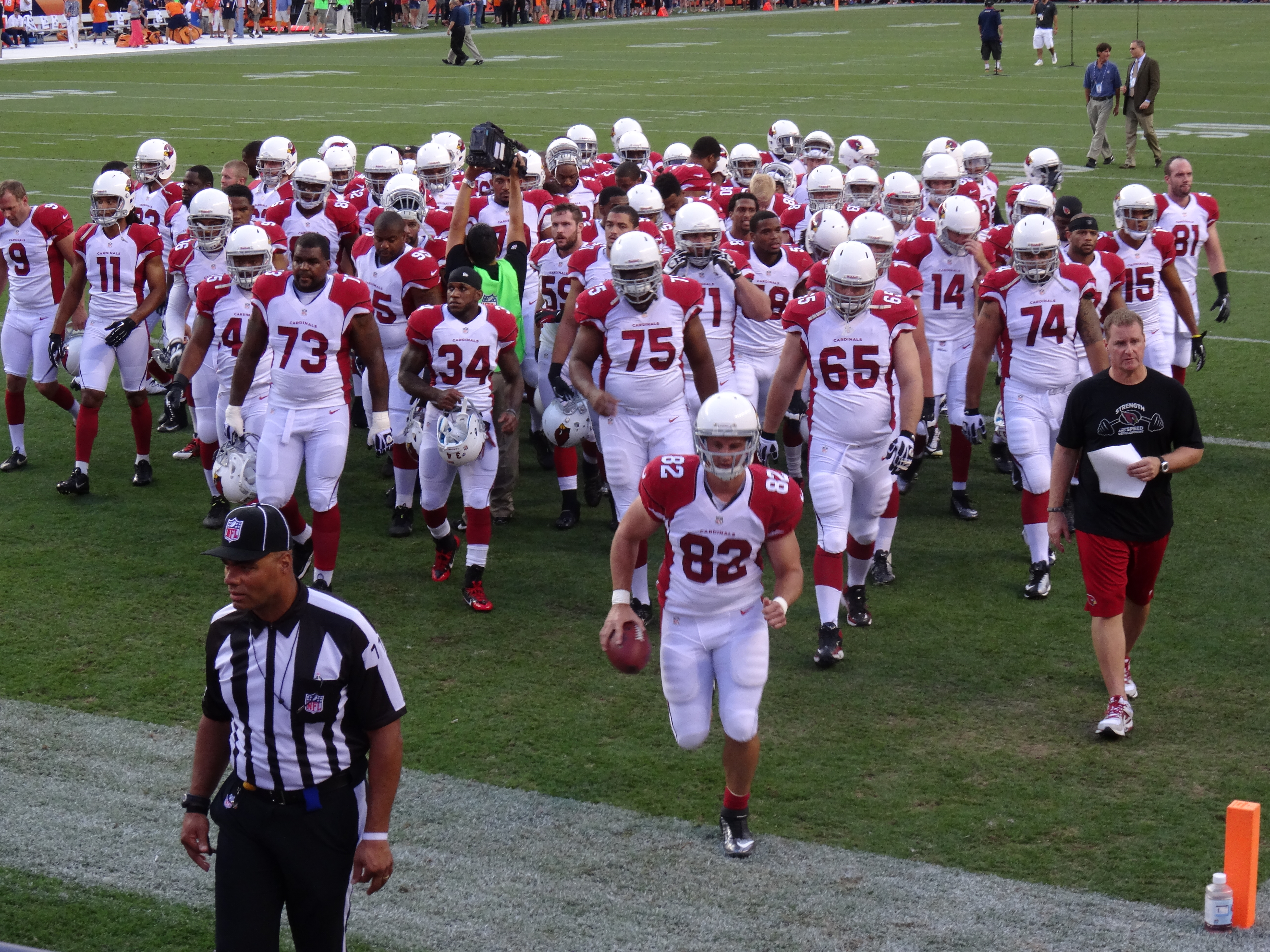 Cardinals coming at me: The Arizona Cardinals NFL football team